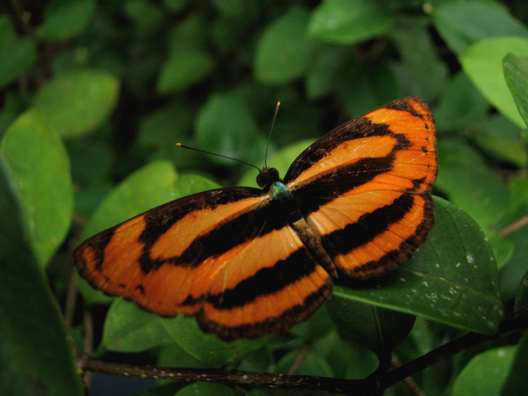 A Common Lascar butterfly, in Pala, Kerala, India